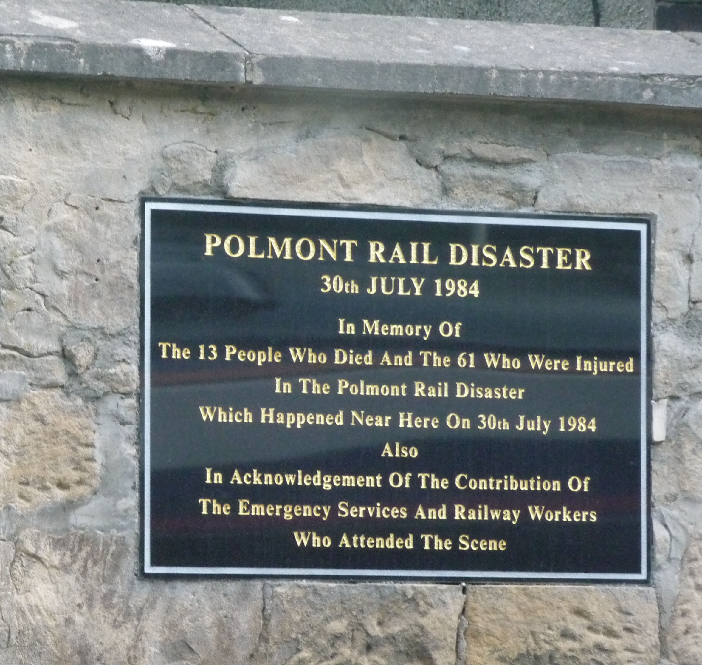 The plaque commemorating the Polmont Rail Accident, at Polmont Station, Stirlingshire, Scotland.